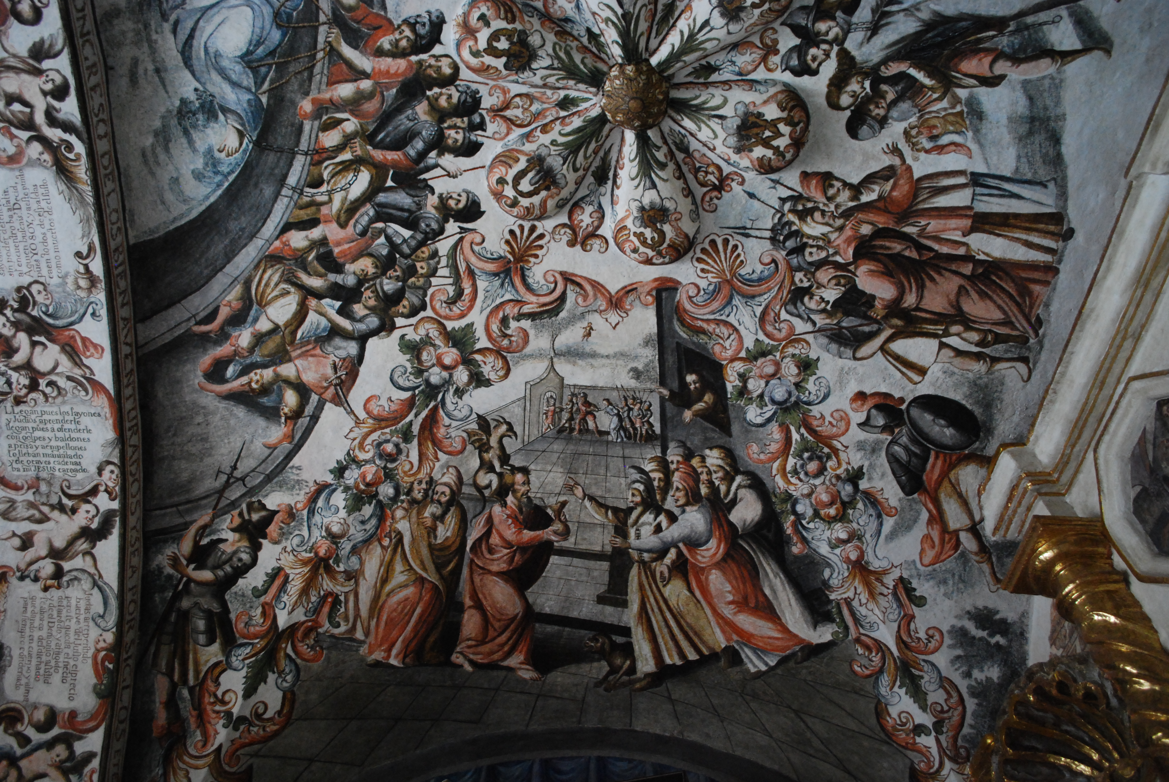 Part of the ceiling work at the Sanctuary of Atotonilco, San Miguel de Allende, Guanajuato, Mexico